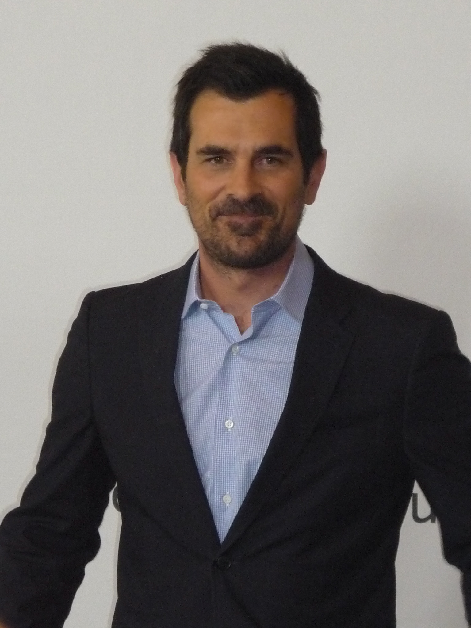 TCA 2010